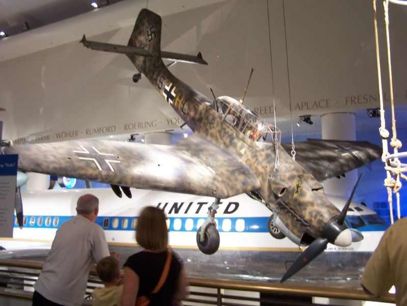 Photograph of Junkers Ju 87 on display at Museum of Science and Industry, Chicago.